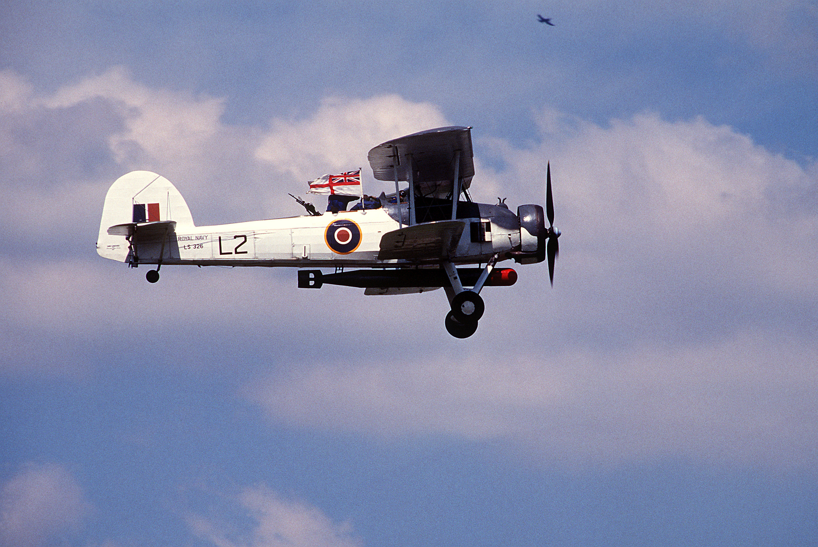 A Royal Navy Fairey Swordfish Mk. II (serial number LS326) in flight during Air Fete'88, a NATO aircraft display hosted by the U.S. Air Force's 513th Airborne Command and Control Wing, at RAF Mildenhall, Suffolk (UK). This aircraft is today operated by the Royal Navy Historic Flight. RN description: This aircraft was built in 1943 at Sherburn-in-Elmet. Later that year she was part of 'L' Flight of 836 Squadron on board the MAC ship Rapana, on North Atlantic Convoy duties. Following her active service she was used for training and communications duties from the Royal Naval Air Station Culham near Oxford and Worthy Down near Winchester. In 1947 Fairey Aviation bought LS326 and displayed her at various RAeS Garden party displays. The following year she was sent to White Waltham for storage and remained there getting more and more dilapidated until Sir Richard Fairey gave orders for the aircraft to be rebuilt. The restoration work completed in October 1955 and thereafter she was kept in flying condition at White Waltham registered as G-AJVH and painted Fairey Blue and silver. In 1959 LS326 was repainted for a starring role in the film 'Sink the Bismarck!'. In October 1960 she was presented to the Royal Navy by the Westland Aircraft Company and has been flown ever since. For many years she retained her "Bismarck" colour scheme and in 1984 D-Day invasion stripes were also added for the 40th Anniversary celebrations when she overflew the beaches of Normandy. Since 1987 she has worn her original wartime colour scheme for North Atlantic convoys with 'L' Flight of 836 Squadron. Following extensive work by BAeS Brough to her wings, it is hoped to have LS326 back in flying condition again in 2008.